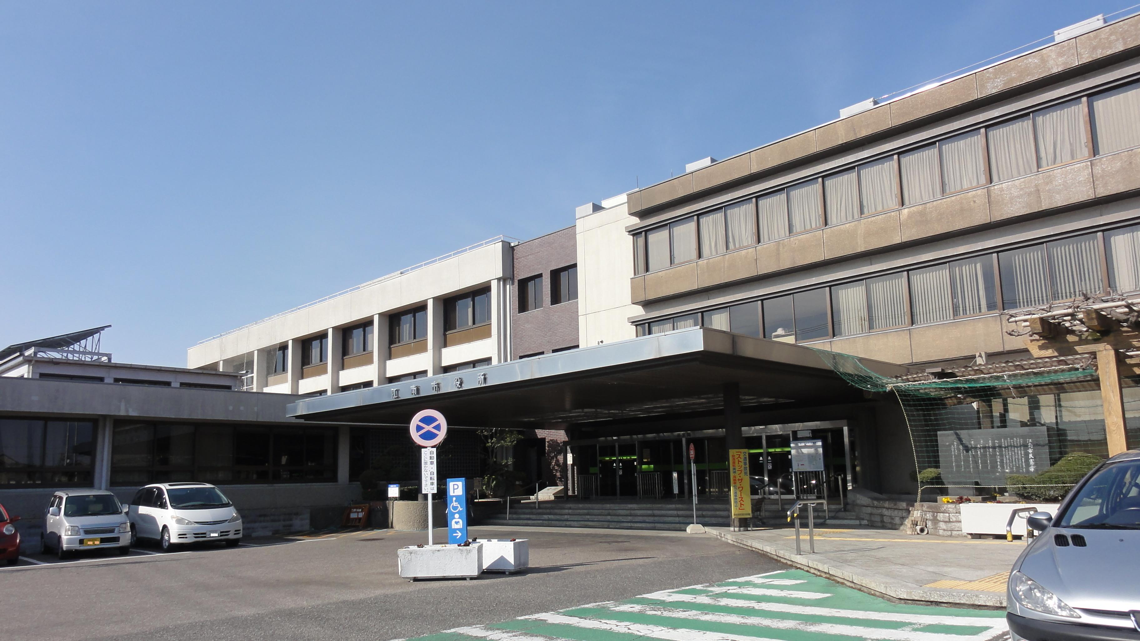 Kōnan city office,Aichi prefecture,Japan